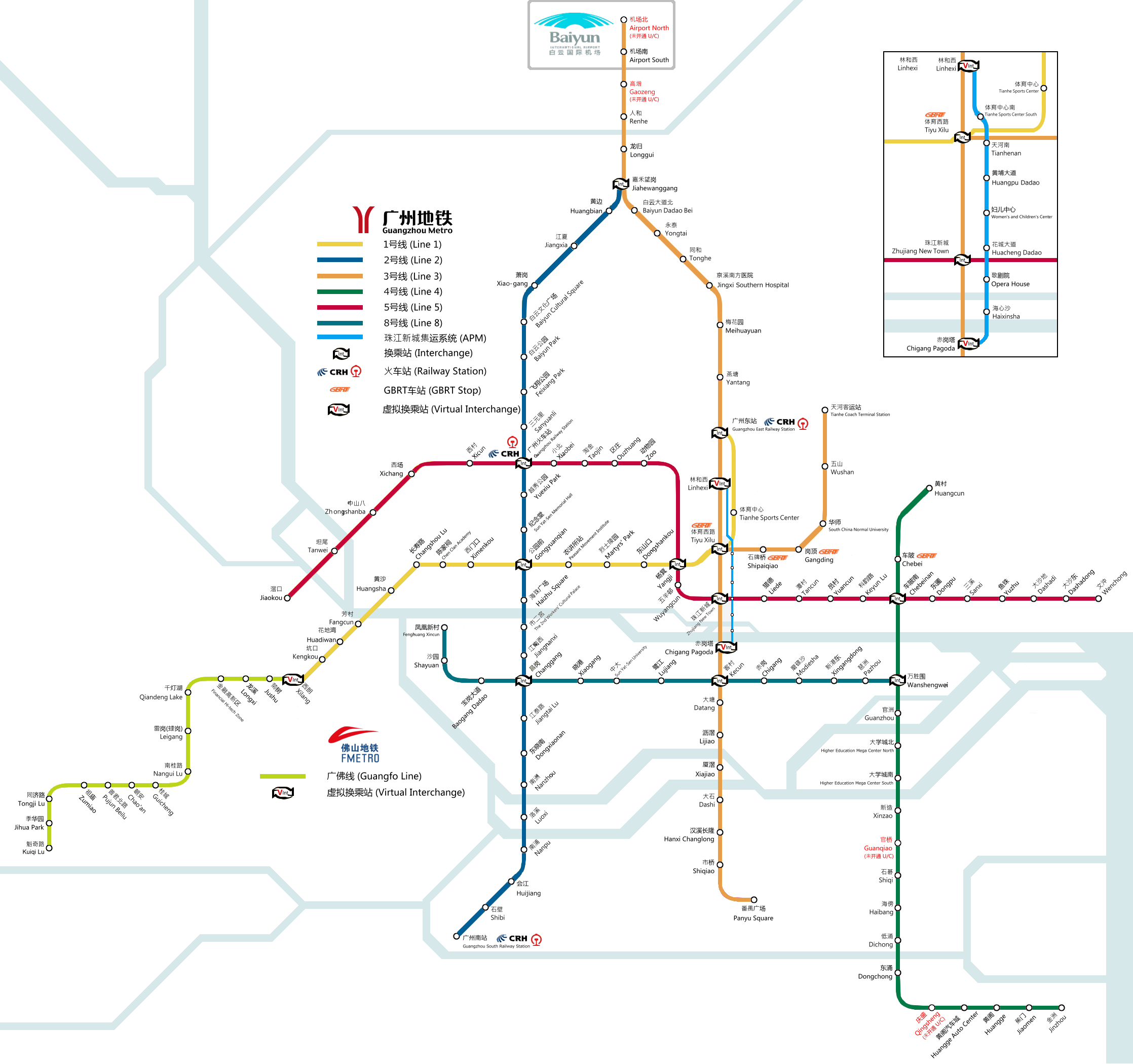 Current map of Guangzhou Metro